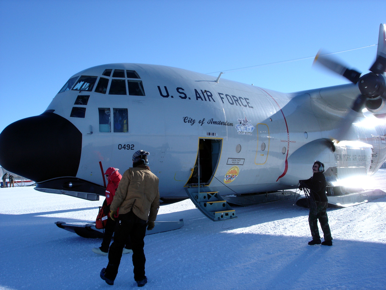 South Pole cargo crew unloading airplane passengers. This photo is 2004 (C) Zachary Staniszewski and it is released under the terms of GNU FDL.